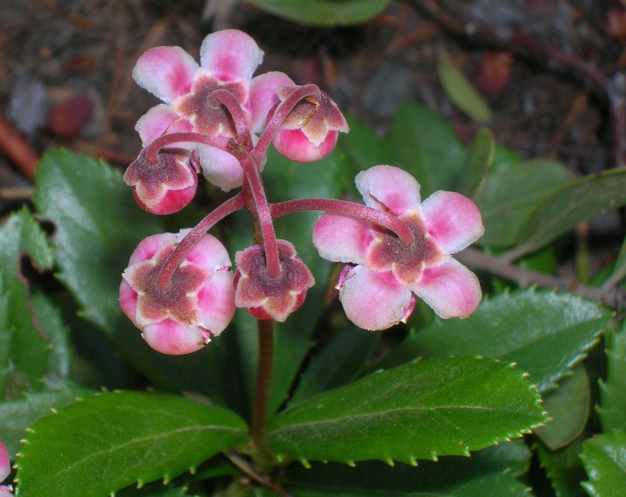 Chimaphila umbellata subsp. occidentalis, on serpentine rock and soil on Iron Peak at about 1460 m, Iron Peak Trail 1399, Kittitas Co., Washington, USA